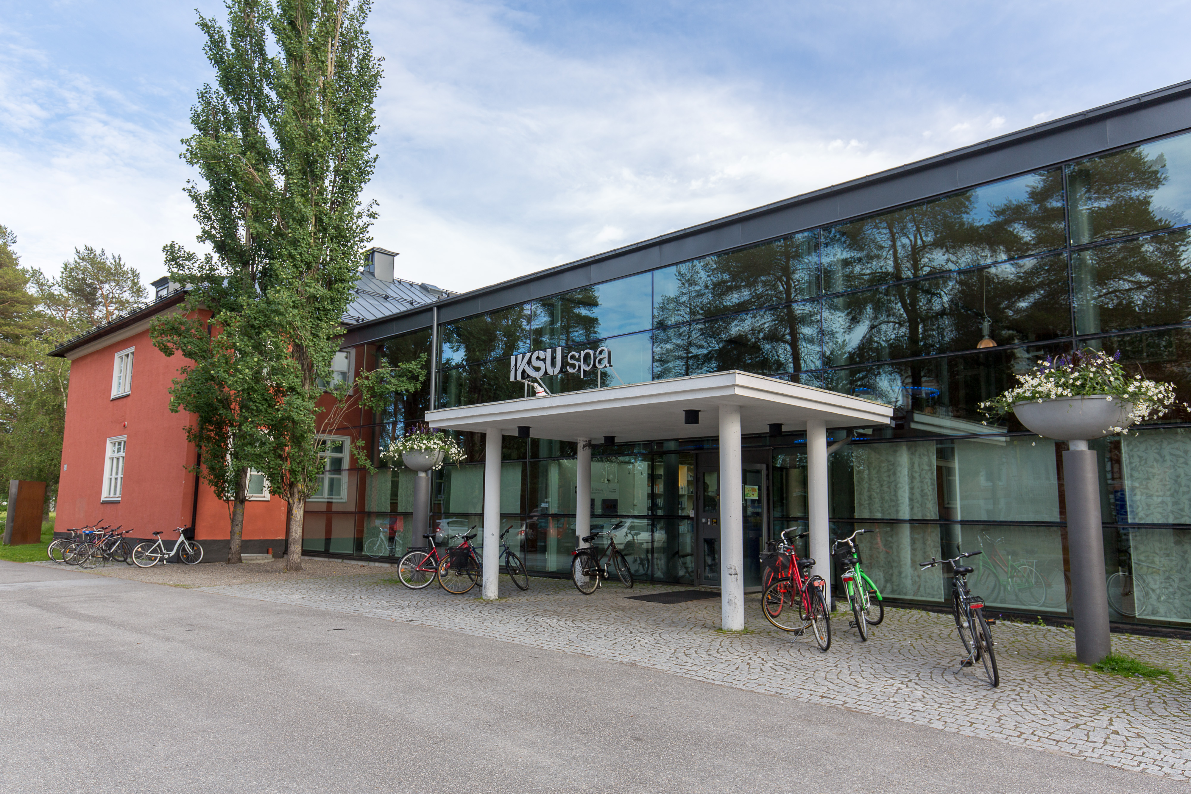 Iksu Spa at Umedalen is one of Iksu's four sports facilities.